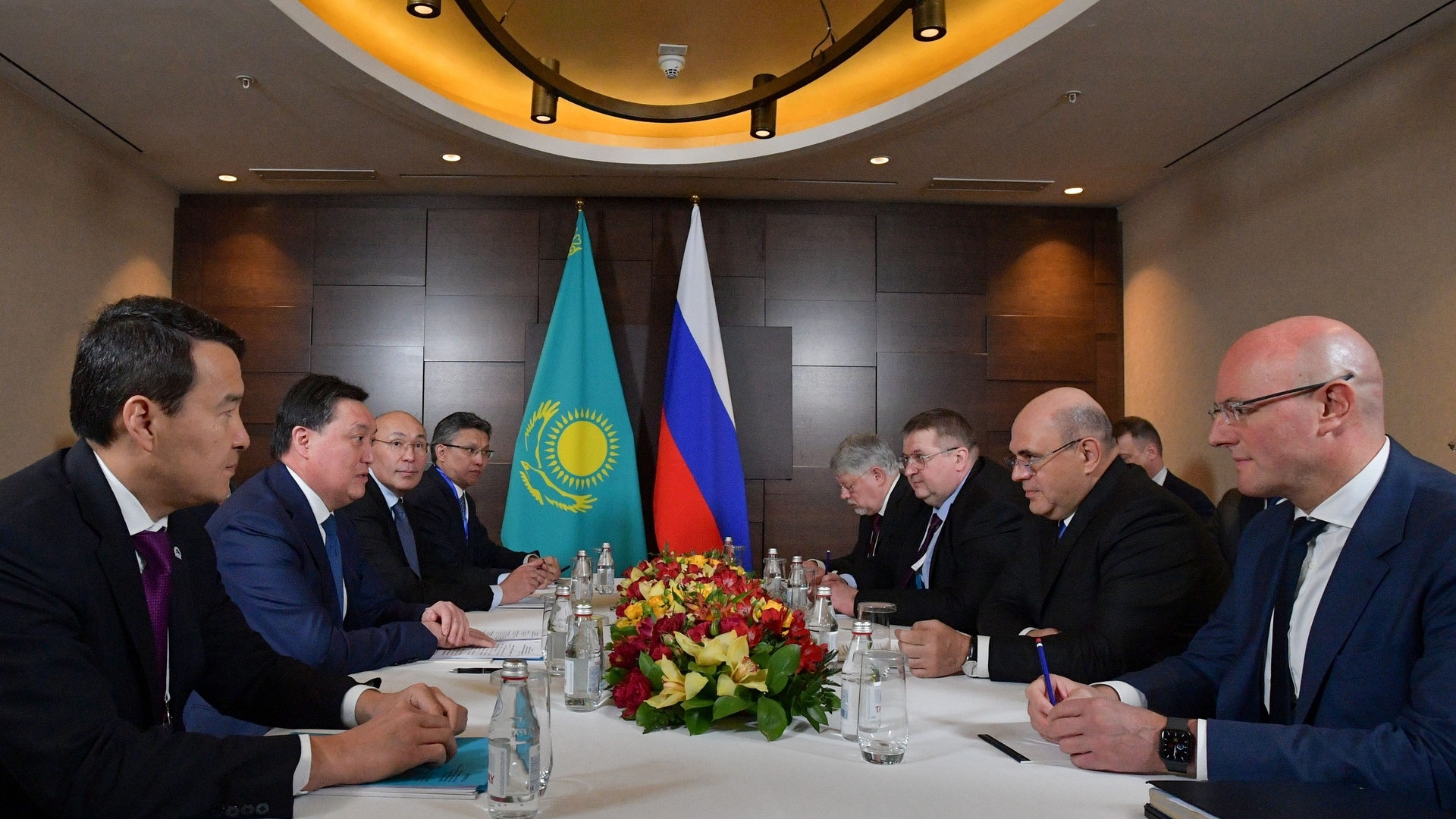 Mikhail Mishustin’s meeting with Prime Minister of Kazakhstan Askar Mamin